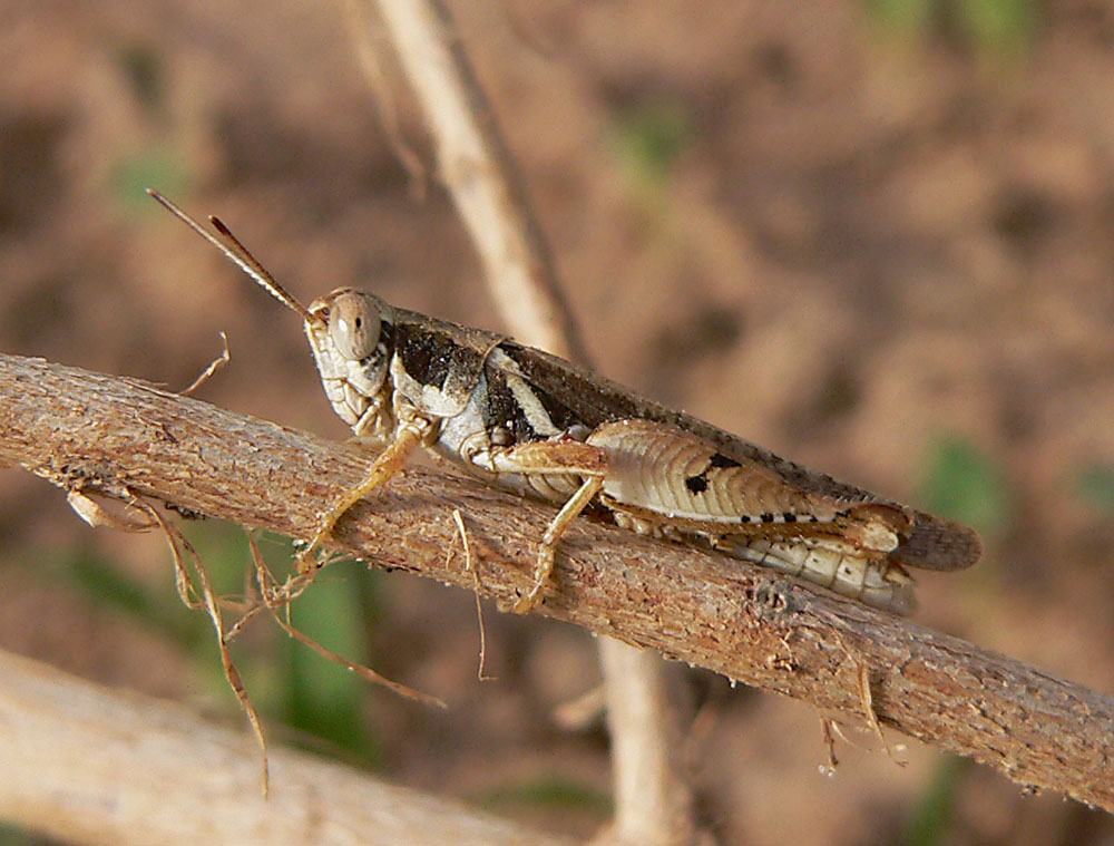 Male Cryptocatantops haemorrhoidalis photographed near Ouadiour, Senegal.